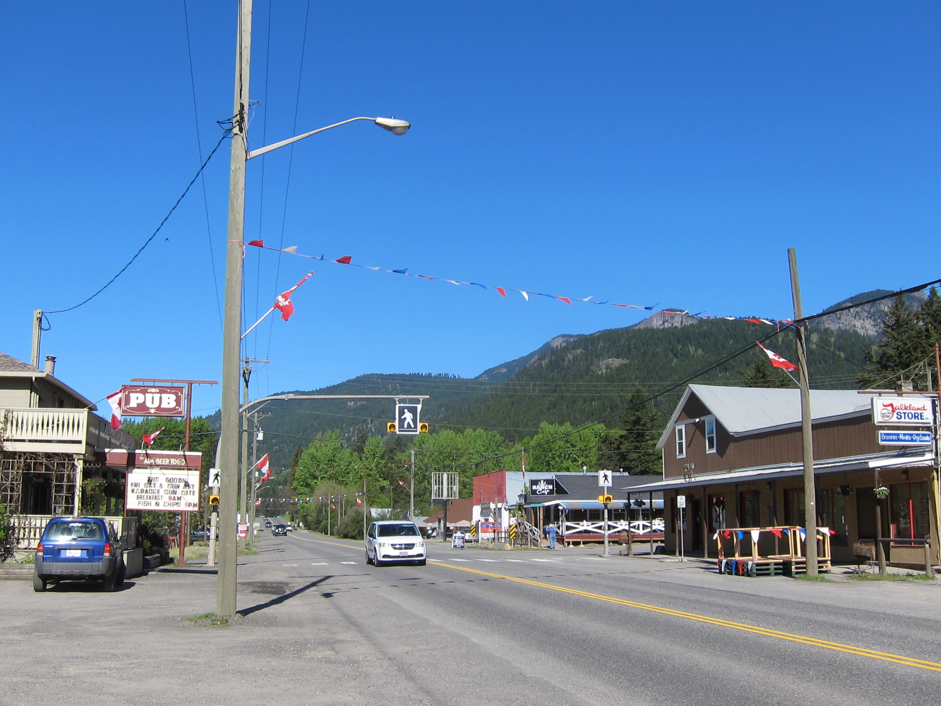 Centre of the town of Falkland, in British Columbia Canada, near the corner of BC Highway 97 and the Chase-Falkland Road.